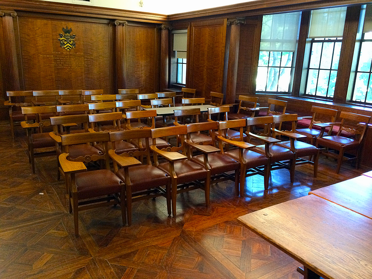 Mulert Memorial Room on the second floor of the Cathedral of Learning on the campus of the University of Pittsburgh